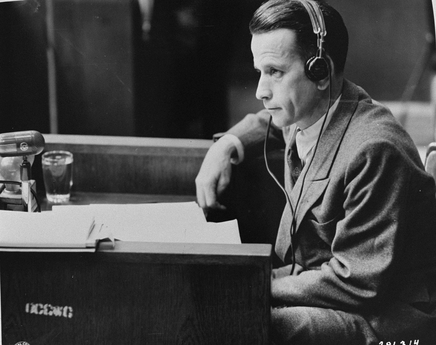 Waldemar Hoven, Nazi and a physician at Buchenwald concentration camp during the Doctor's trial, United States of America v. Karl Brandt, et al.